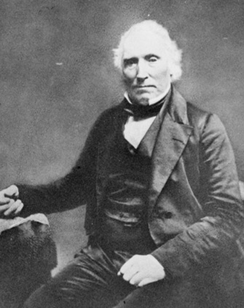 Alexander Berry, owner of Coolangatta Estate on the Shoalhaven River, New South Wales